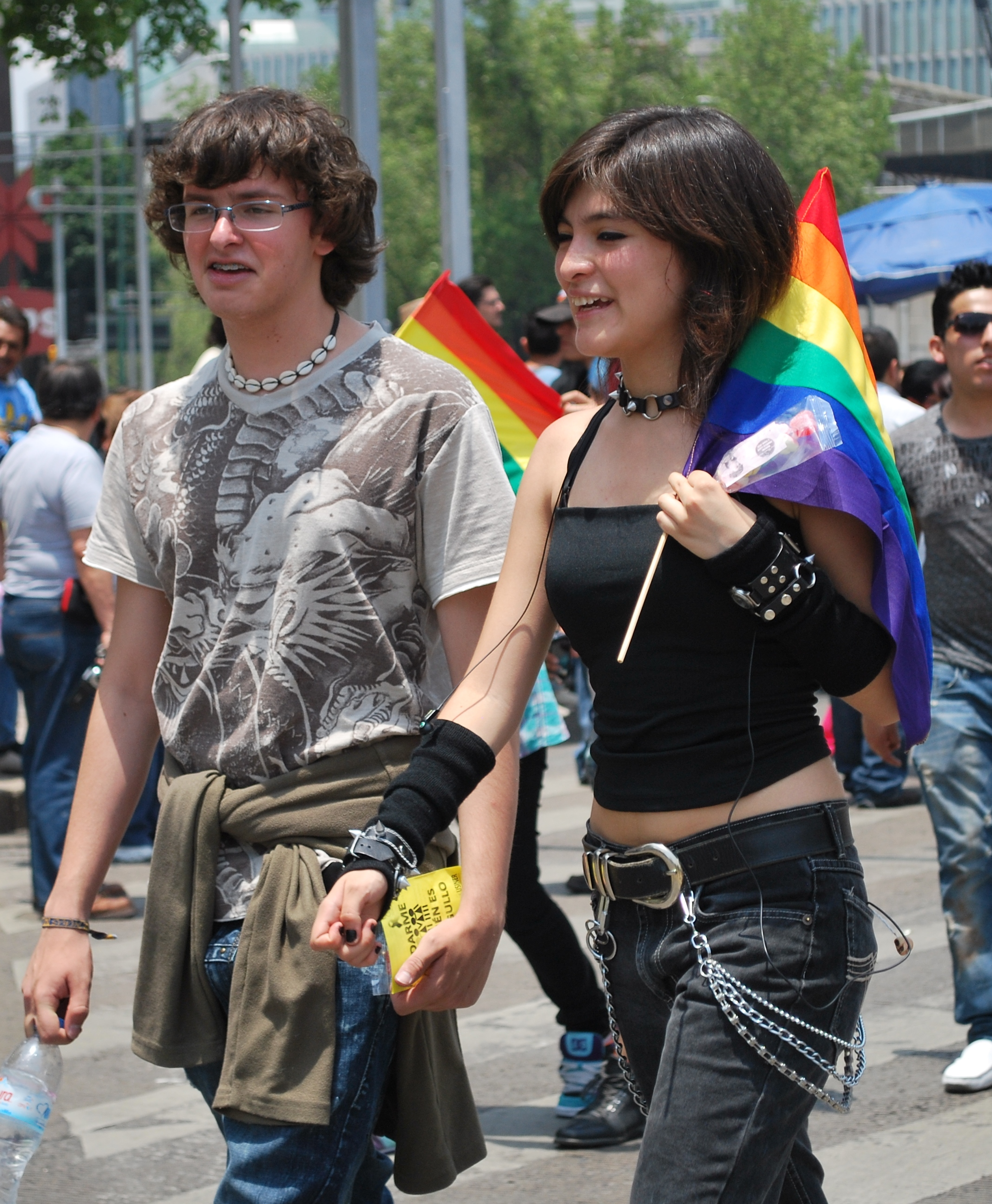 Participants at the 2012 Marcha Gay in Mexico City